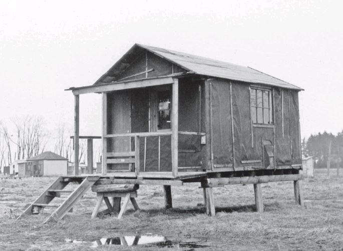 Photograph taken of cottage on Etobicoke Flats in Etobicoke Township, April 7, 1923 by John Boyd. Archives Id:PA-86025